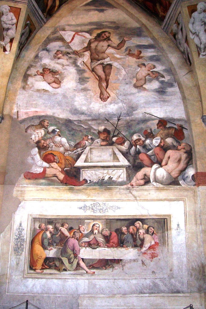 Resurrection and last dinner, St Mary of Snow, Pisogne, Val Camonica